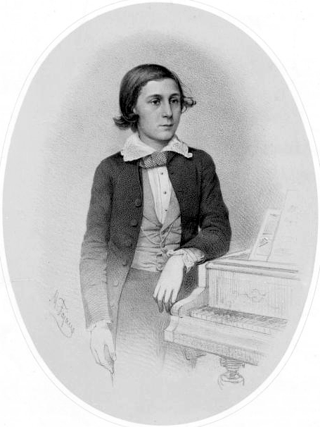 Brazilian pianist and composer Arthur Napoleão (1843-1925).